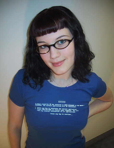 Image supplied by StephTheGeek for inclusion on her article. She agrees to release it under the GFDL.